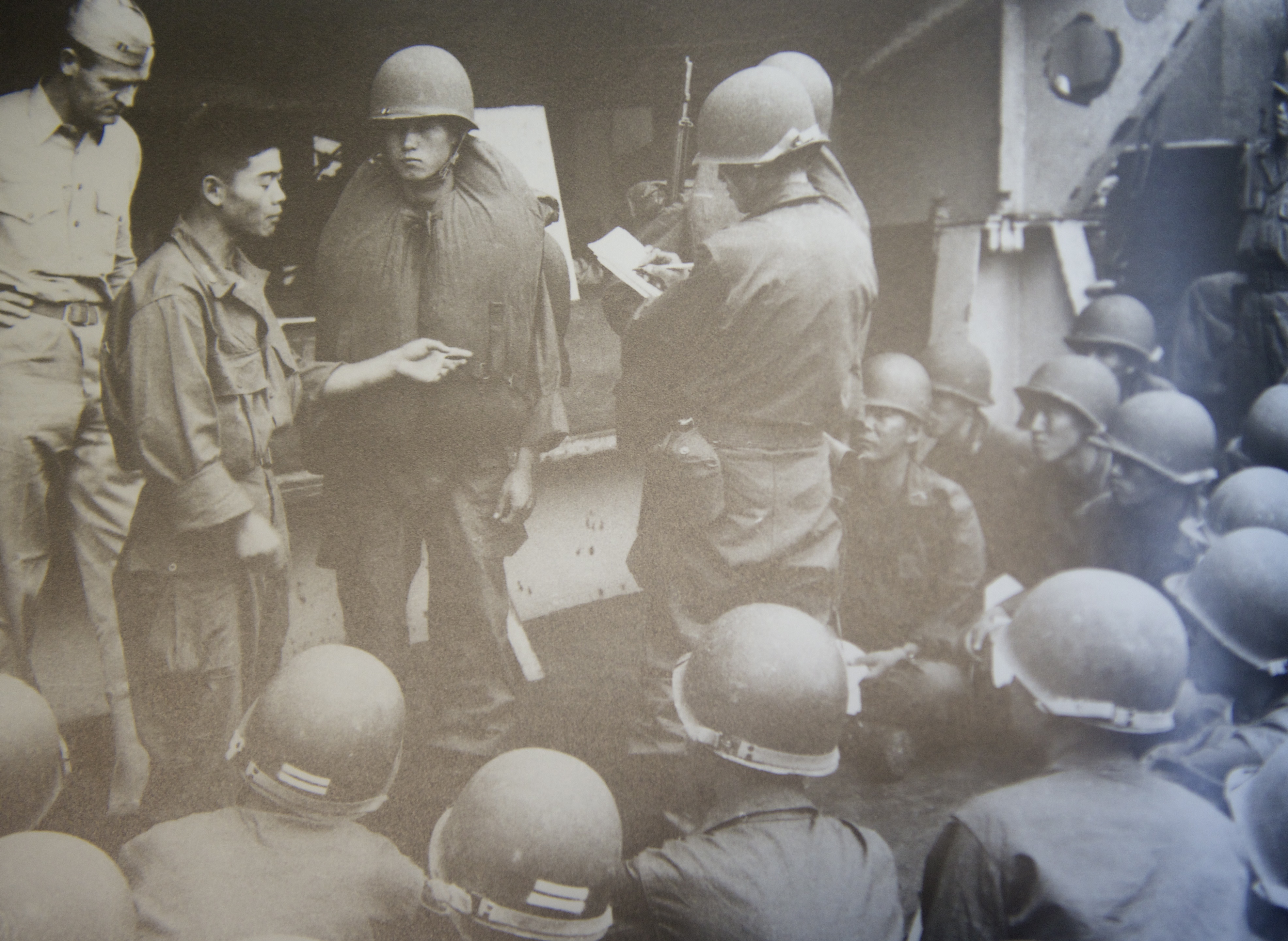 ROK 17th Regiment commander Col. Paik, Inyup conveying an order on a warship.